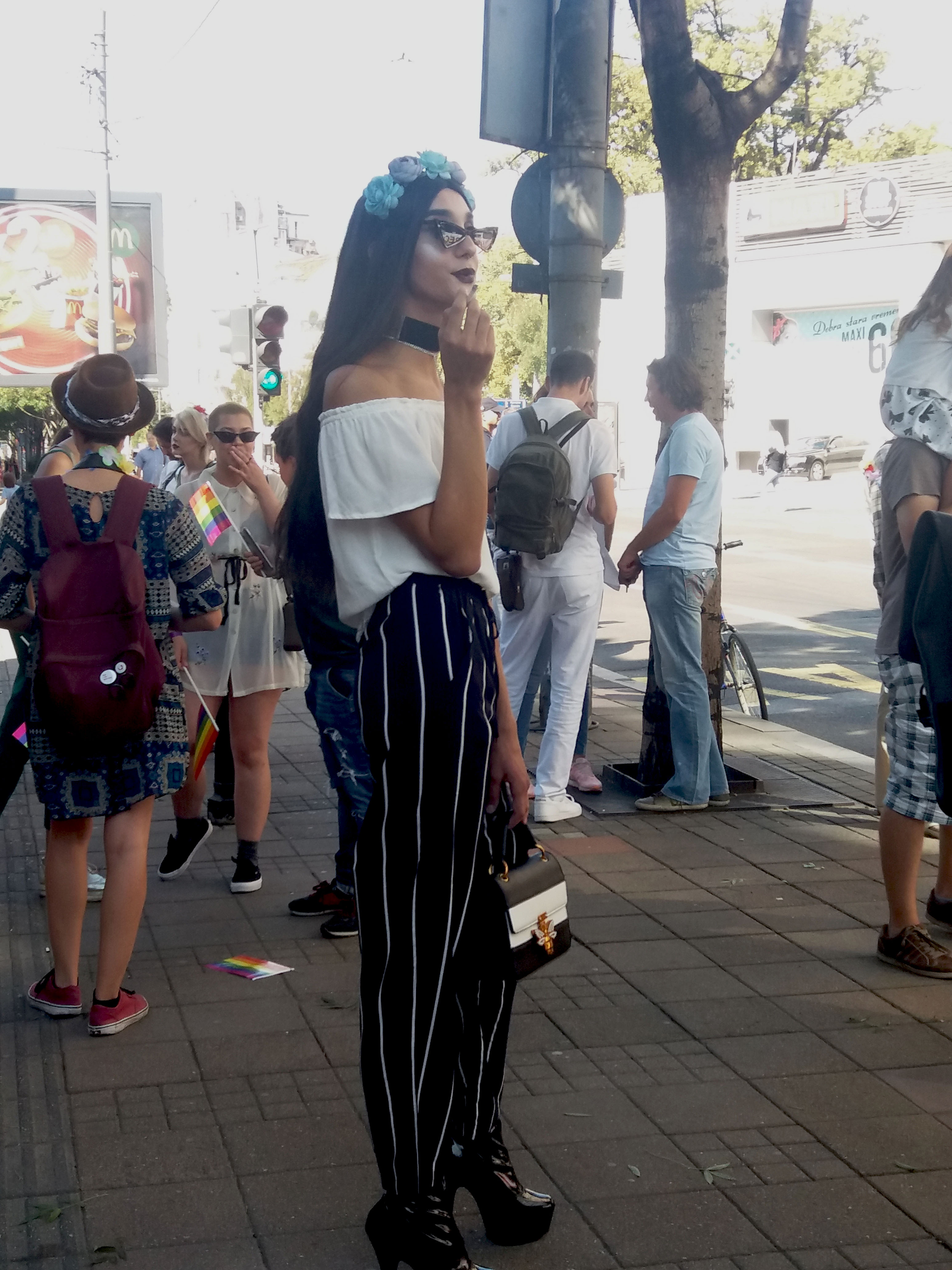 Belgrade Pride 2018 took place on 16th September 2018.